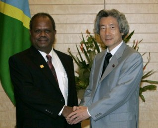 Allan Kemakeza, Prime Minister, met Jun'ichirō Koizumi, Prime Minister, at the Prime Minister's Official Residence in Chiyoda Ward, Tōkyō Metropolis on July 11, 2005.